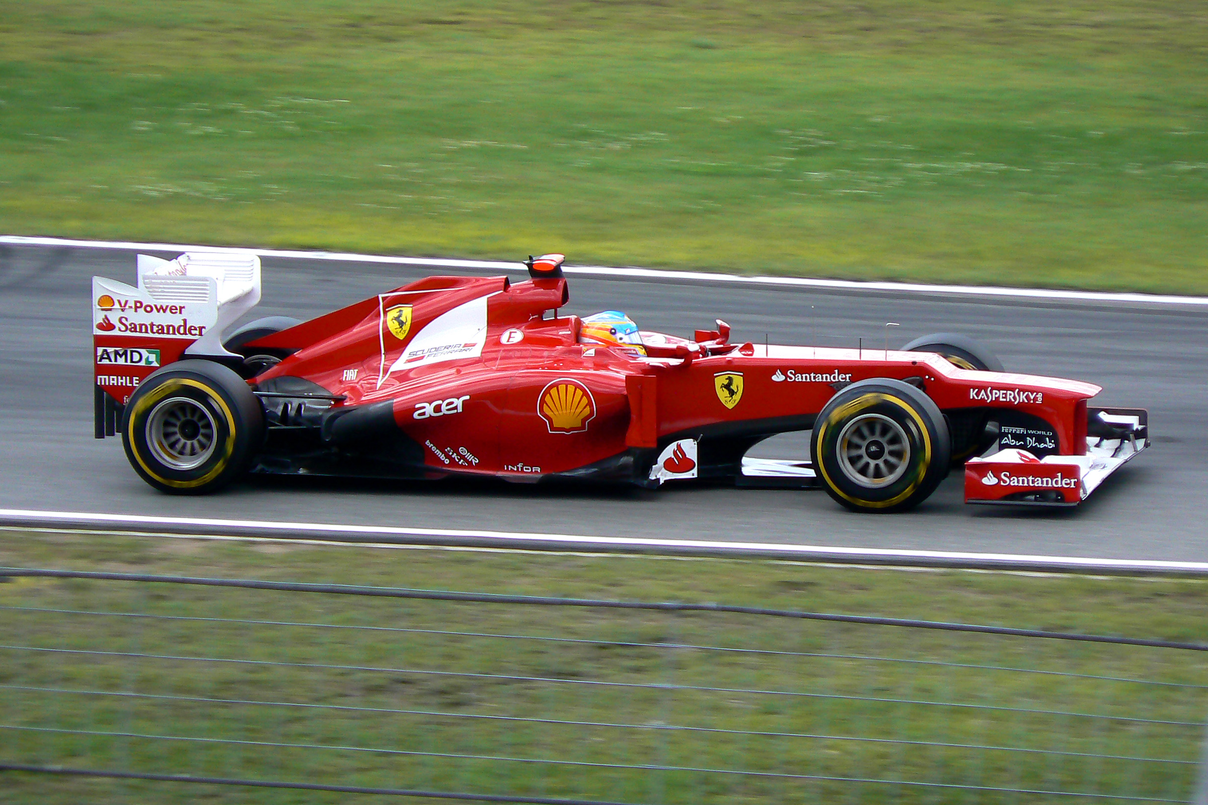 Fernando Alonso, 2012 German Grand Prix race.